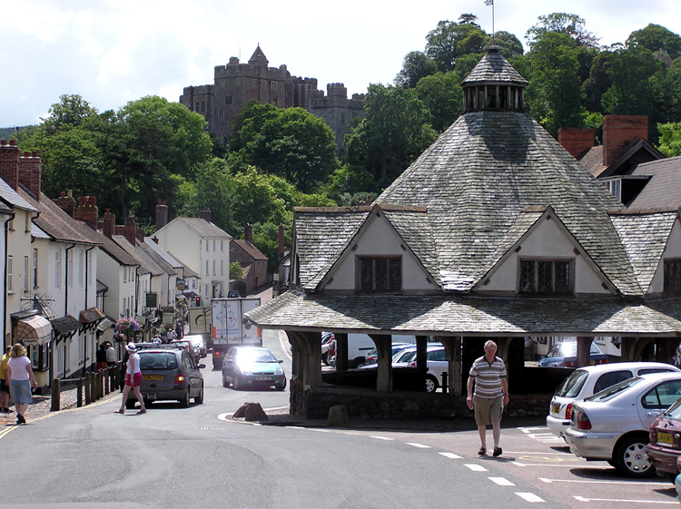 Dunster Yarn Market (a covered market for the sale of local cloth, built in 1609) and Dunster Castle, Exmoor. Taken by Adrian Pingstone in July 2004 and released to the public domain.